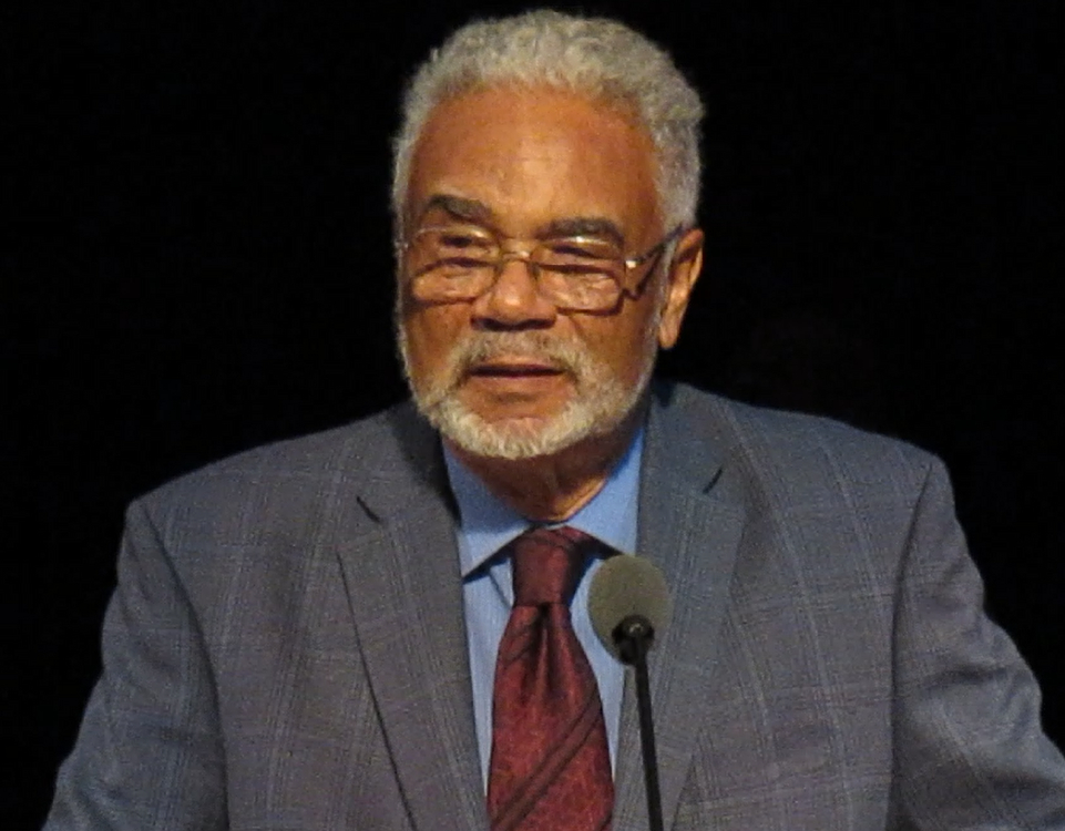 Clayborne Carson giving a BYU Devotional Address.